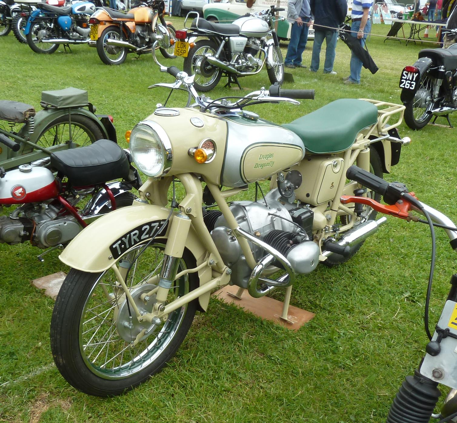 Douglas Dragonfly Abergavenny steam rally, 2015.